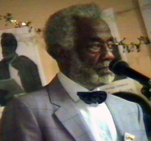 Poet and musician John Handcox at a Union Labor Tribute, San Diego, 1992. Photo by Patty Mooney of Crystal Pyramid Productions